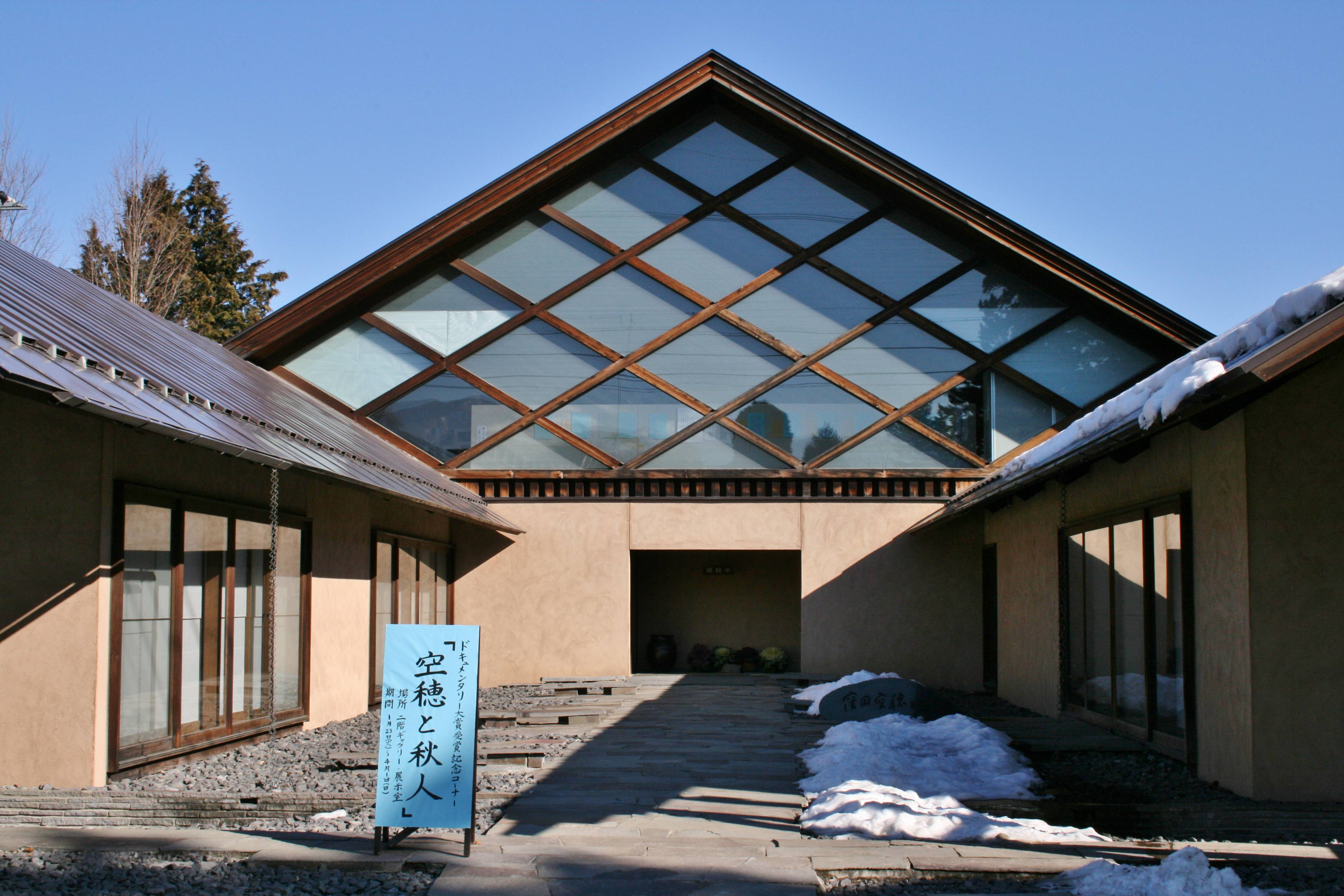 Utsubo Kubota Memorial.